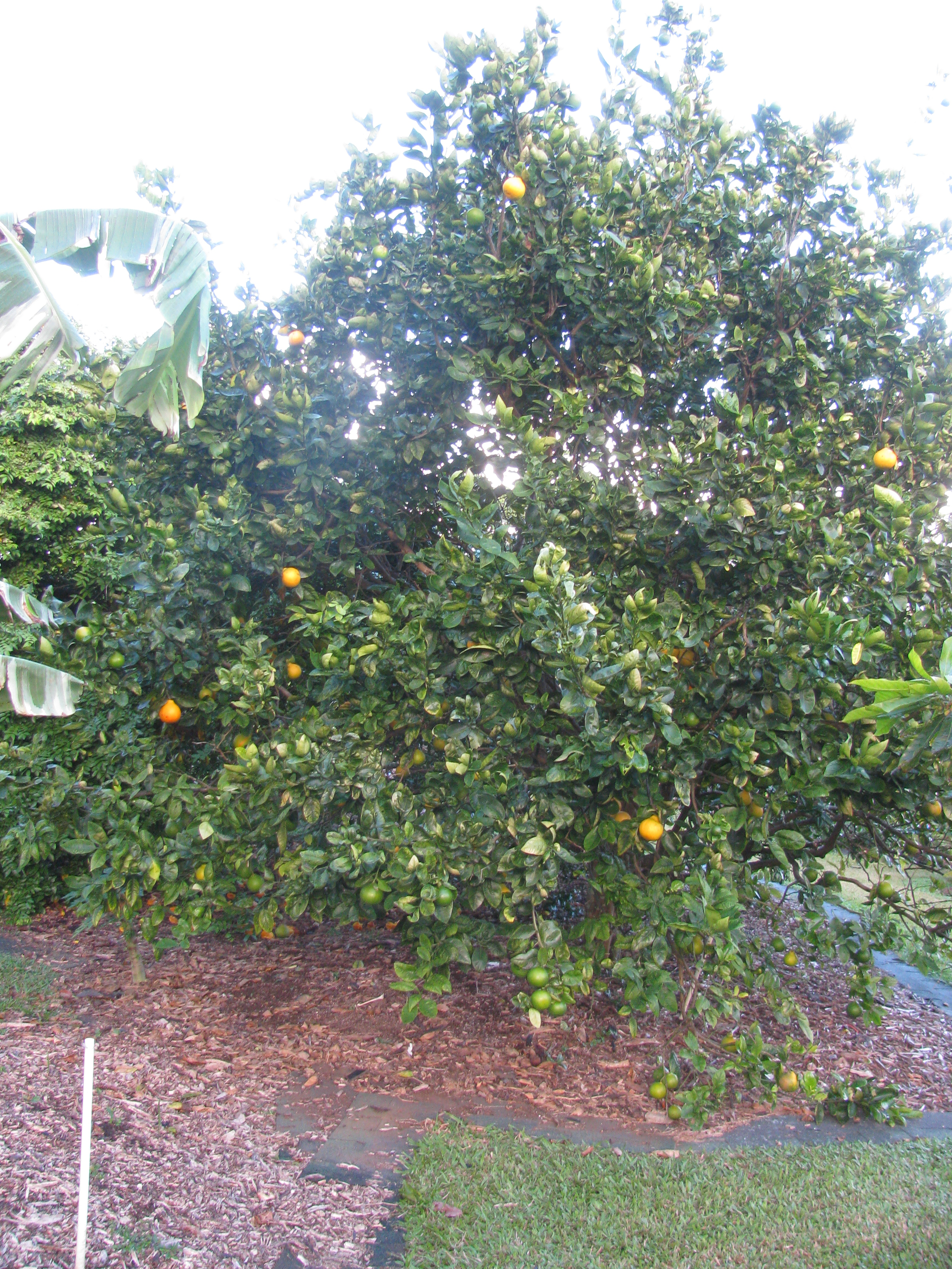 Citrus x tangelo (Tangelo) Habit at Pali o Waipio, Maui, Hawaii. November 08, 2012 #121108-1134 Image Use Policy Minneola tangelo is a hybrid of Duncan grapefruit and Dancy mandarin, sometimes marketed under the name Honeybell. It was developed by USDA and released in 1931.